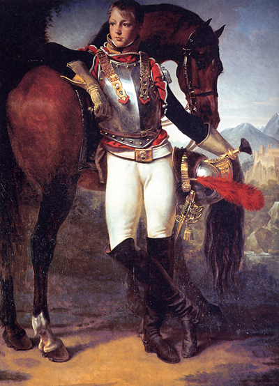 A portrait of Charles Legrand, a French cuirassier and the son of General Claude Juste Alexandre Legrand